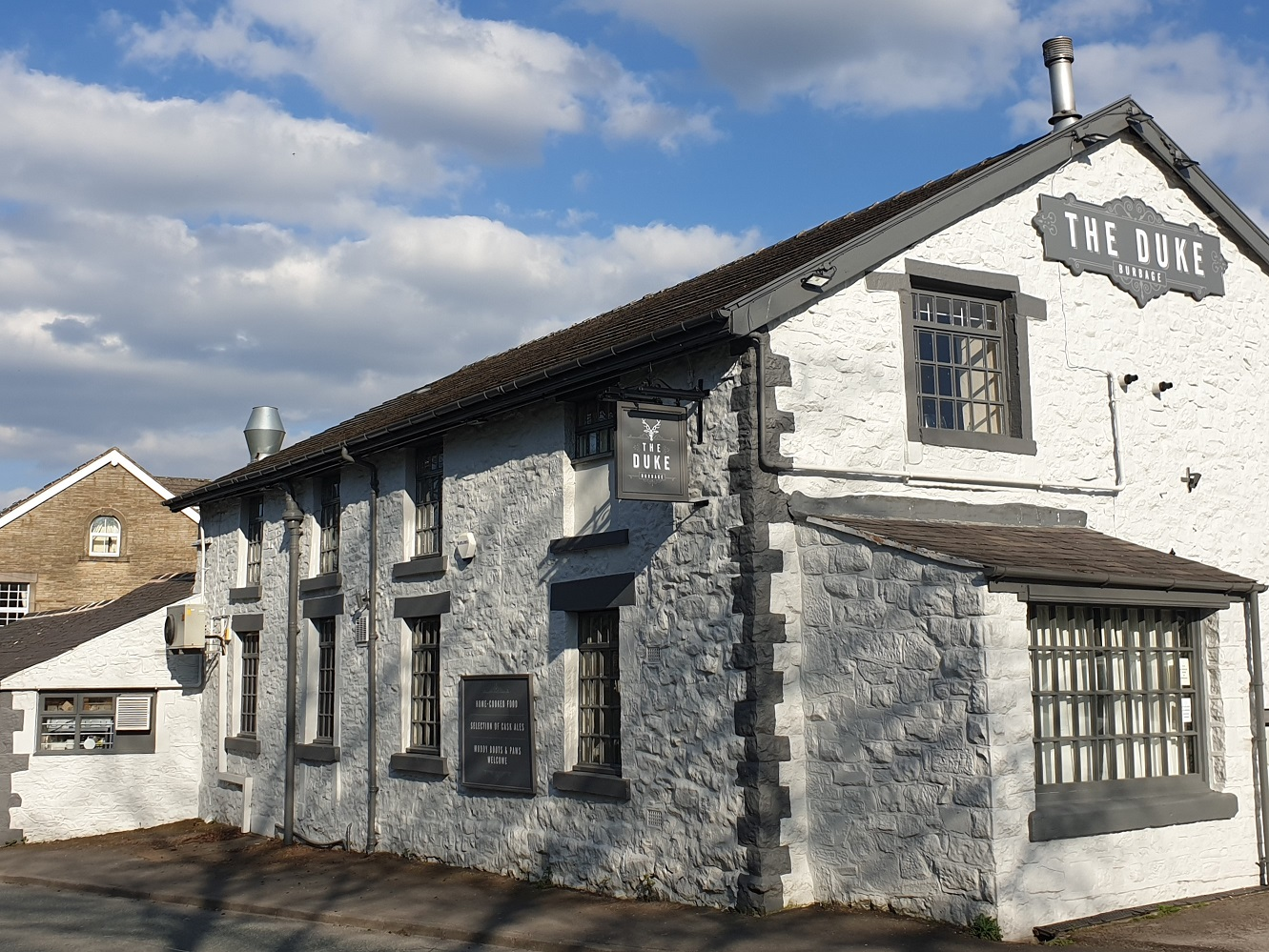 The Duke pub at Burbage in Buxton